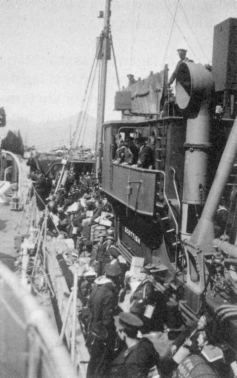 Swedish crew from destroyer HMS Remus have embarked the English naval drifter Scottish to be transported to Swedish oiler Castor near Tórshavn, Faroe Islands.